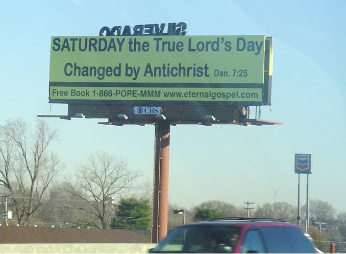 This photo was taken by me and there is no copyright associated with it.